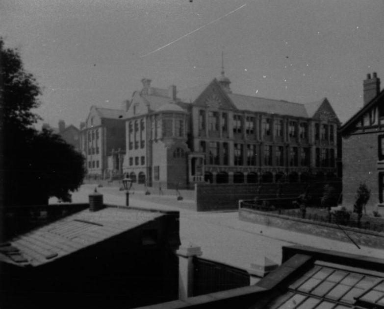 Six photos on one neg - Cowper Street, London, not Currie Street, Adelaide, See also GN05066-67. (G Brooks) - Microfiche incorrectly titled "Currie Street Council School Interiors". Re-titled to reflect G Brooks' notes.